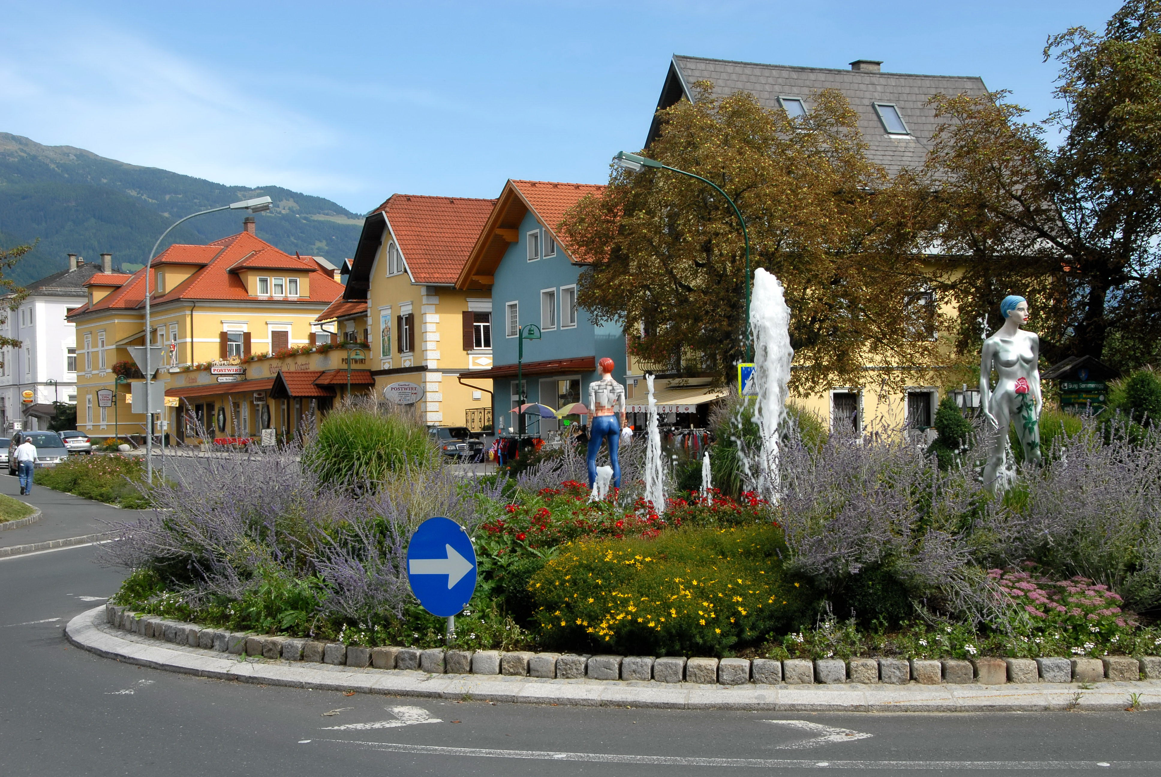 Circular traffic at the entrance of Seeboden, district Spittal on the Drau, Carinthia, Austria.